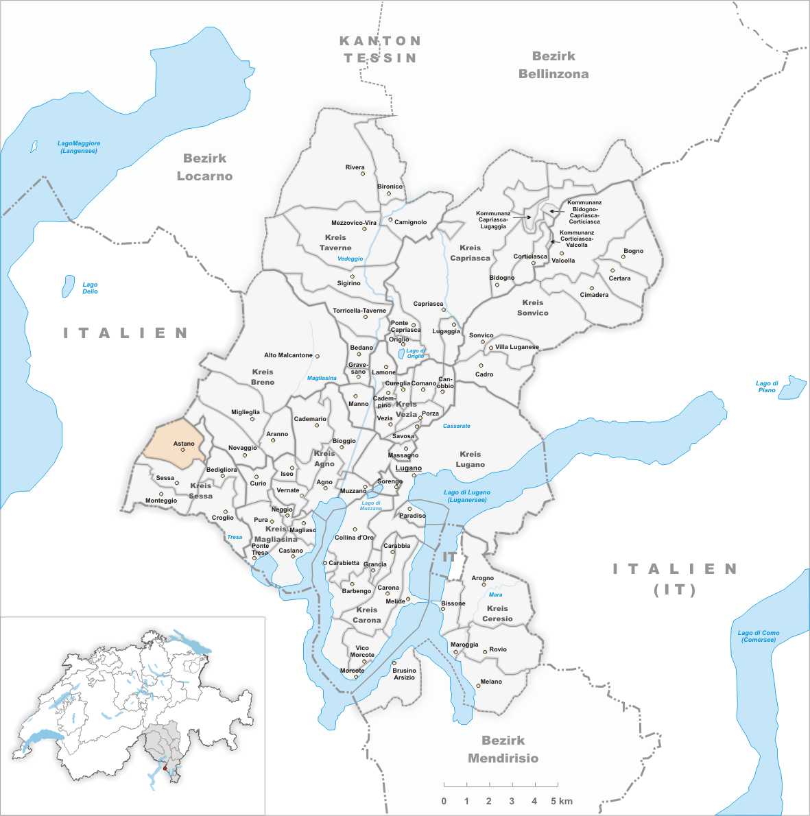 Municipality Astano